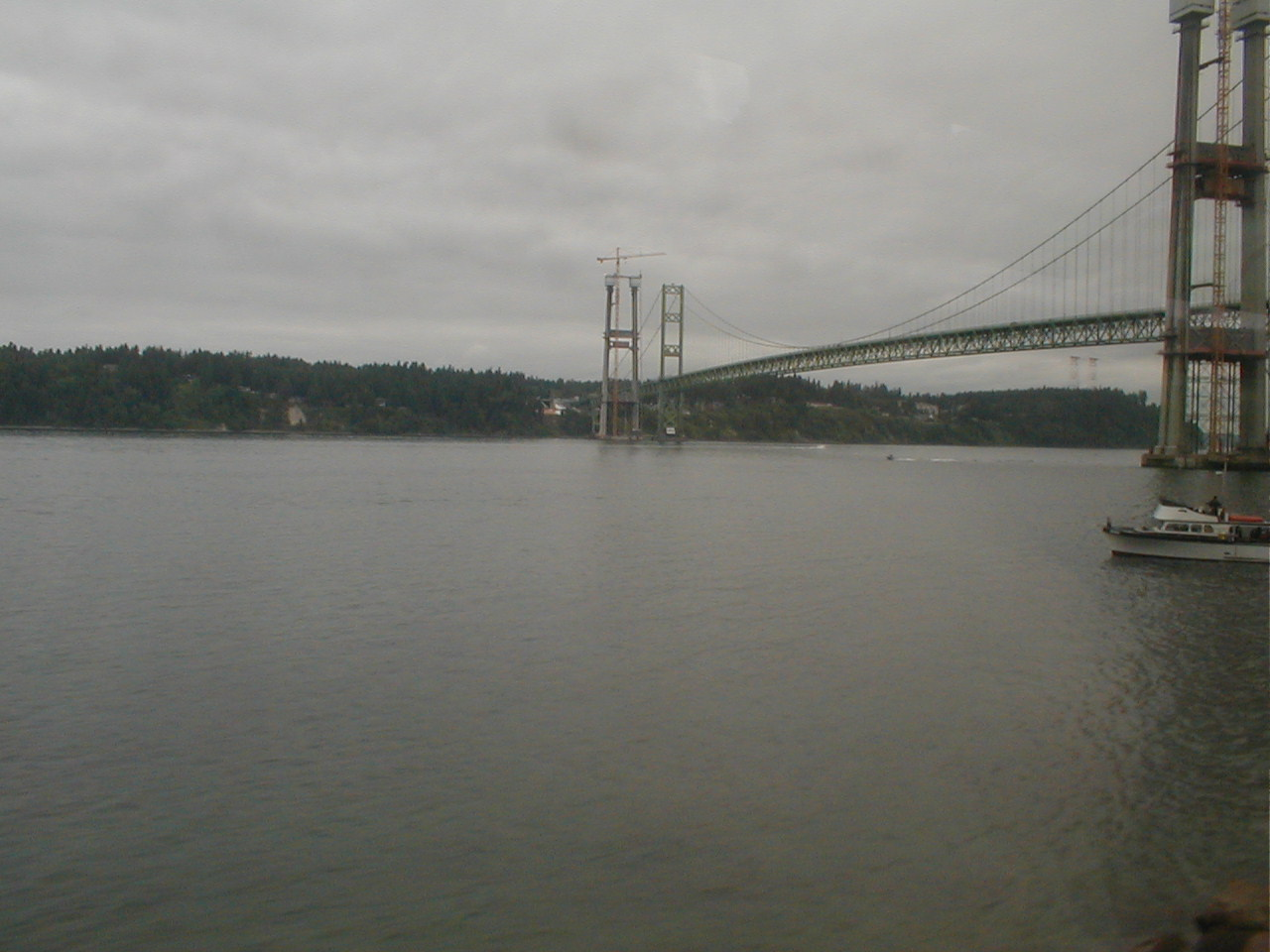 First there was "Galloping Gertie," the Tacoma Narrows bridge that famously collapsed in a high wind in the 40's. They rebuilt it in the 50's to better withstand the wind, but it's still too narrow for today's needs. So they're building a new toll bridge to carry heavier traffic loads.